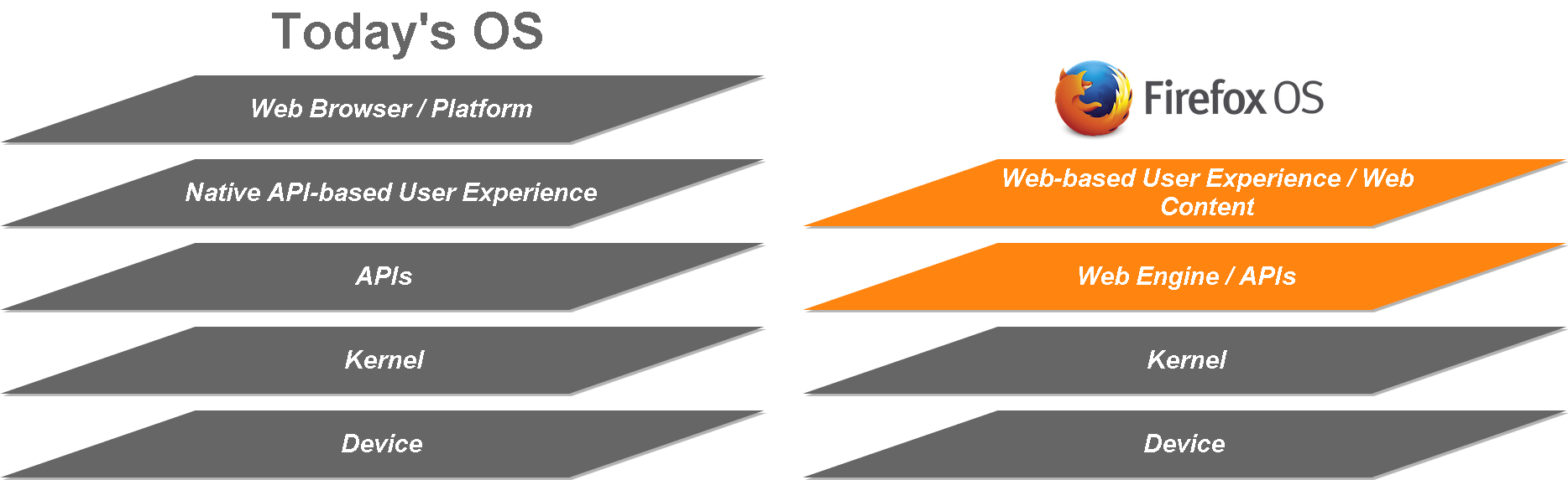 Firefox OS and Today's OS Architecture